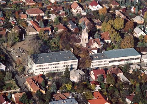 Vecsés, Hungary, aerialphotgraphy